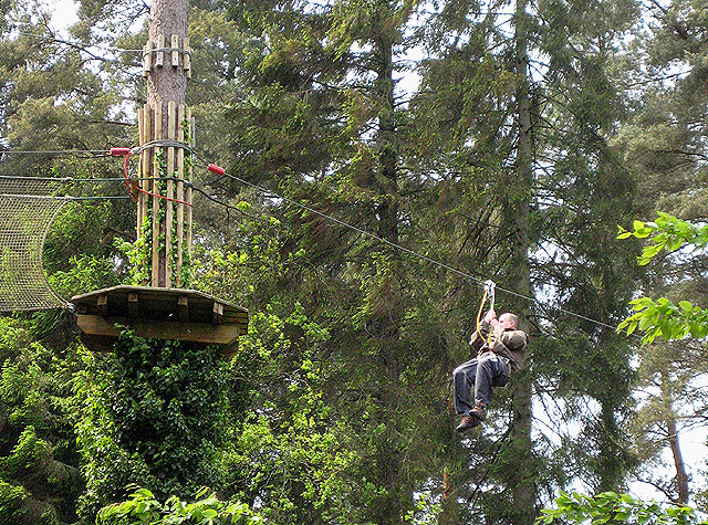 Participant in high wire forest adventure A 'Go Ape' experience operates at Mallards Pike Lake.